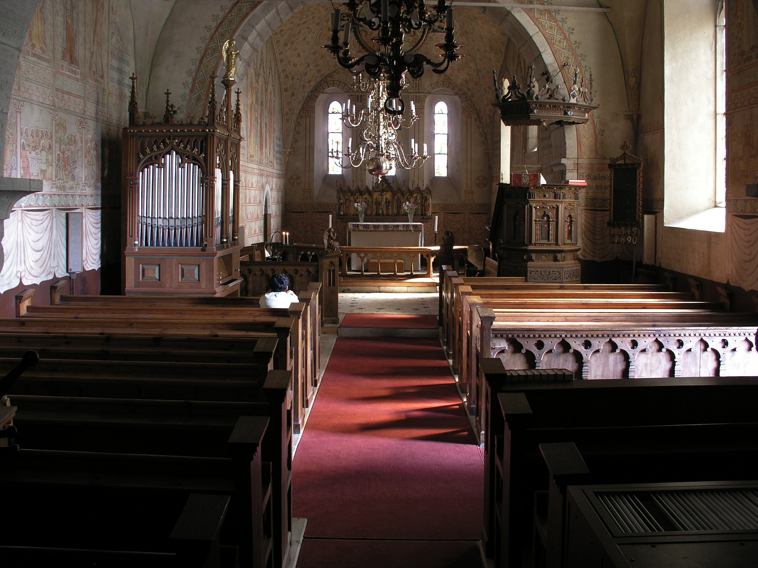 Ardre church, Diocese of Visby, Sweden. Gotlands kommun, Garde församling. Nave.